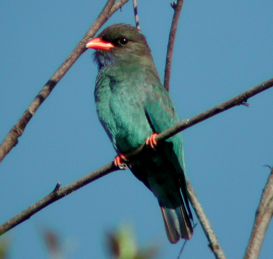 Dollarbird (Eurystomus orientalis) Samsonvale Cemetery, SE Queensland, Australia